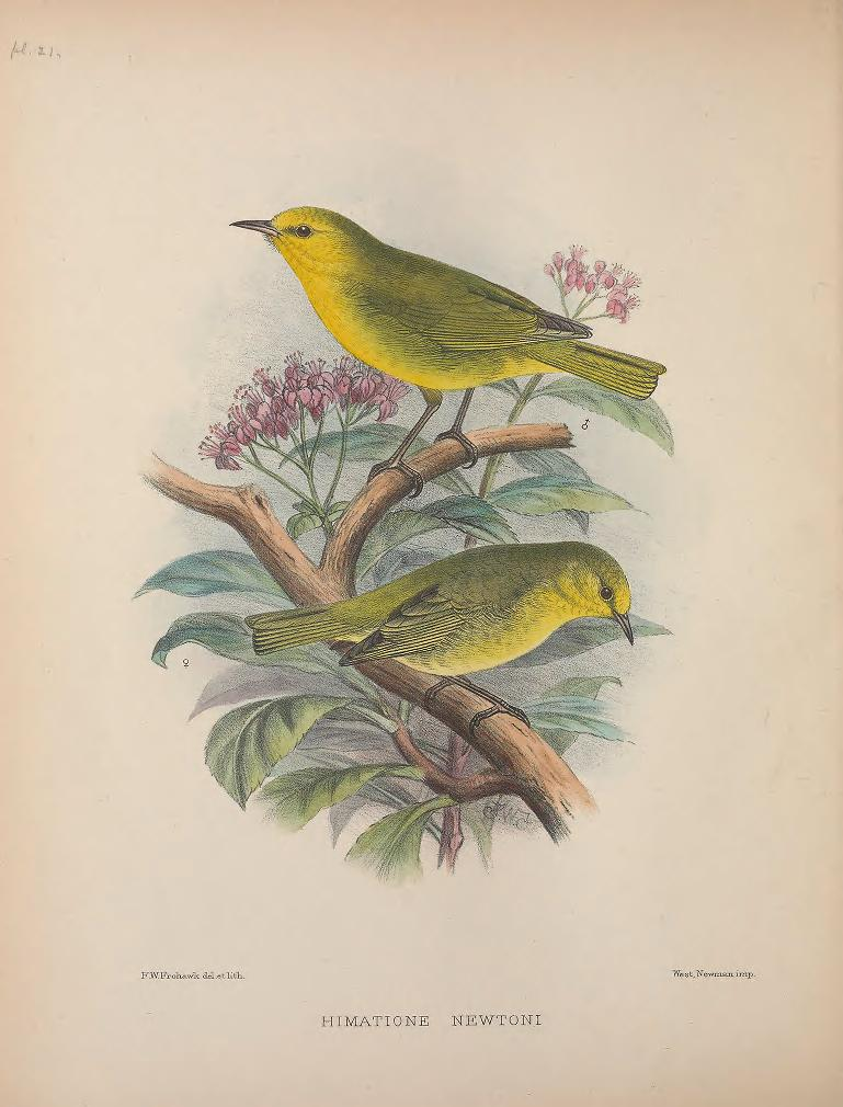 Himatione newtoni from The Birds of the Sandwich Islands Himatione newtoni = Paroreomyza montana newtoni (Rothschild, 1893)[1]